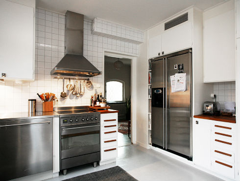 Modern Swedish kitchen with stainless steel appliances